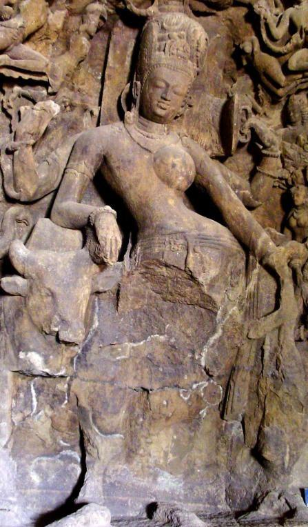 Ardhanari, the god Shiva and his consort Parvati in double gender incarnation, a relief from the Elephanta Caves.